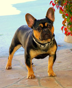 A black and tan french bulldog named Major facing the camera and showing his colors. He is not available for stud services.